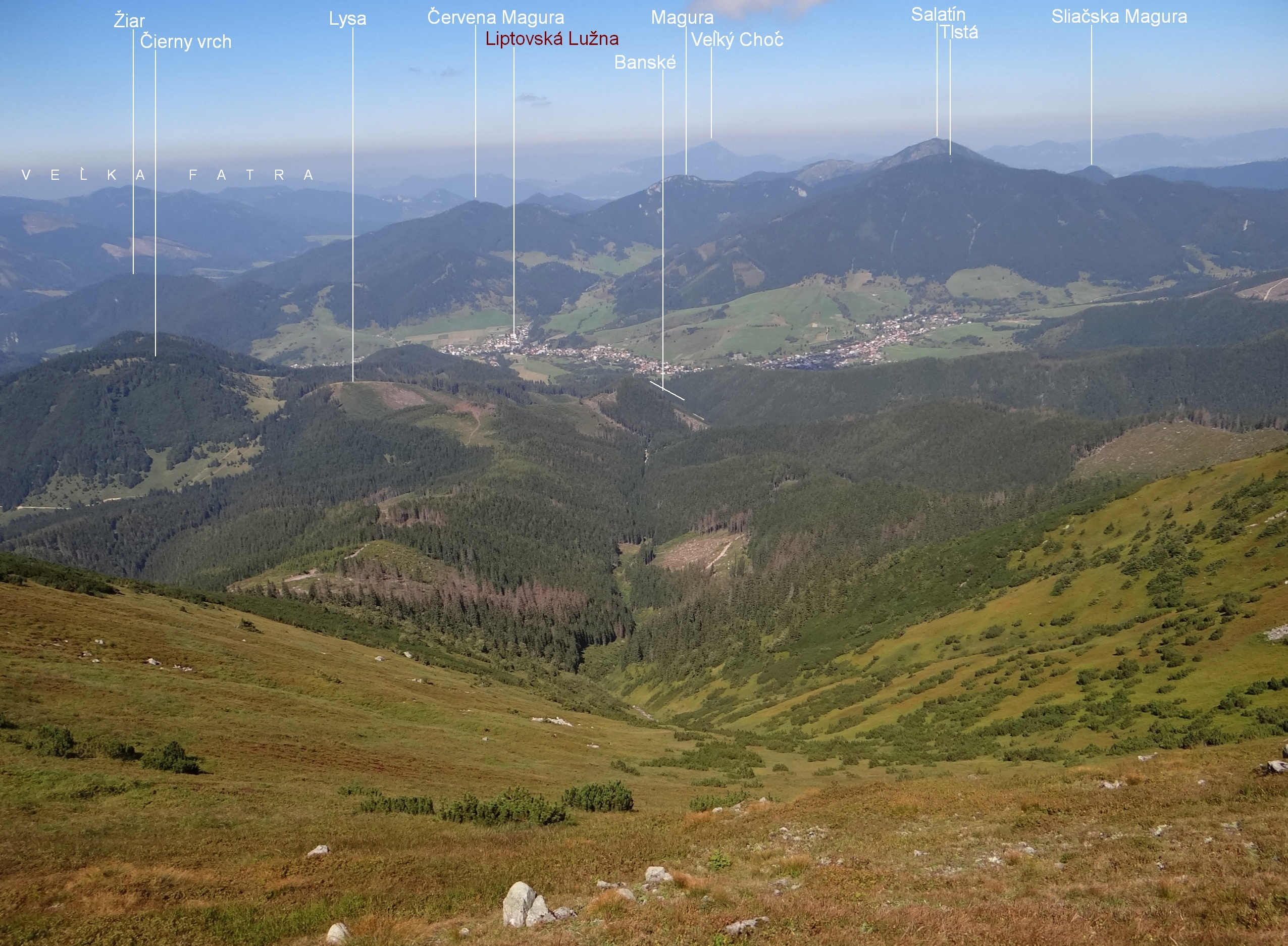 View from Veľká Chochuľa